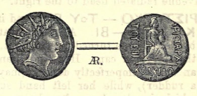 Drachm of Aristarchos, dynast of Colchis, c. 52/51 BC. Reproduced in The Numismatic Chronicle (1877)